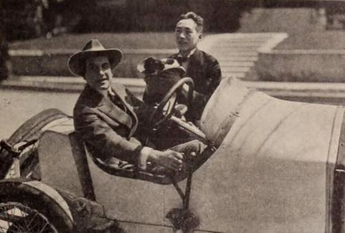 Still from the American drama film Who Is to Blame? (1918) with Jack Livingston and Yutaka Abe (credited as Jack Yutaka Abbe), on page 27 of the June 8, 1918 Exhibitors Herald.